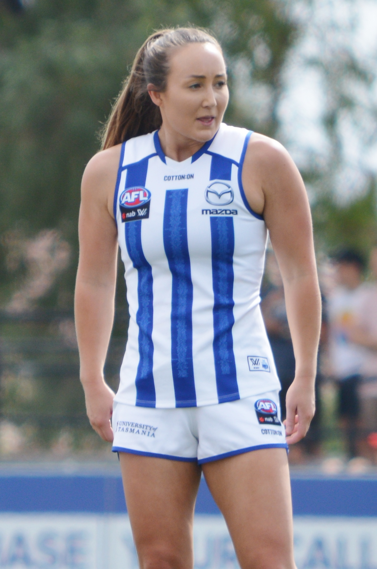 Nicole Bresnehan with North Melbourne during an AFLW practice match against Melbourne at Casey Fields in January 2019.